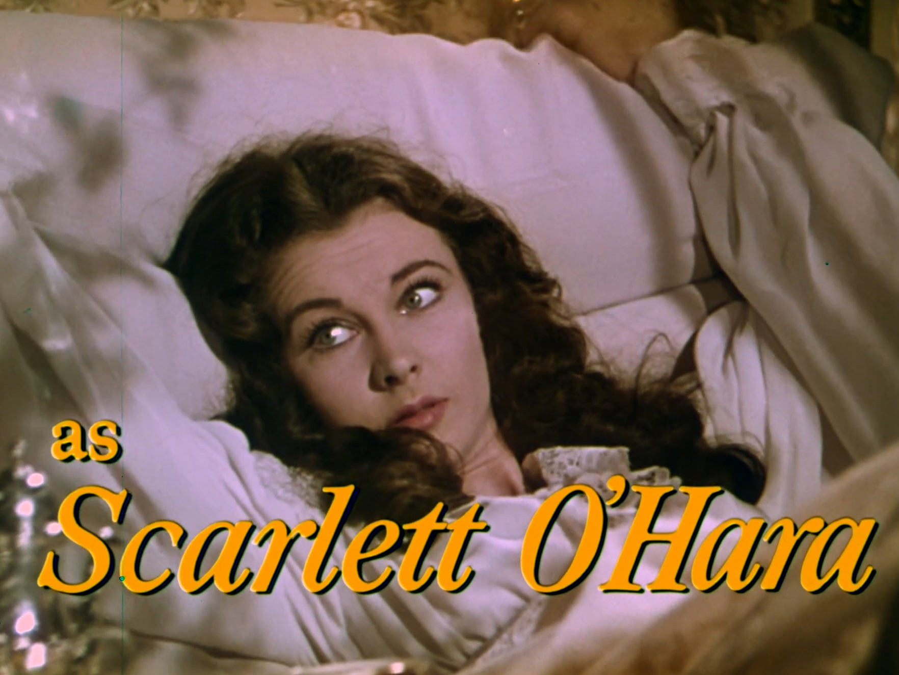 Cropped screenshot of Vivien Leigh from the trailer for the film Gone with the Wind